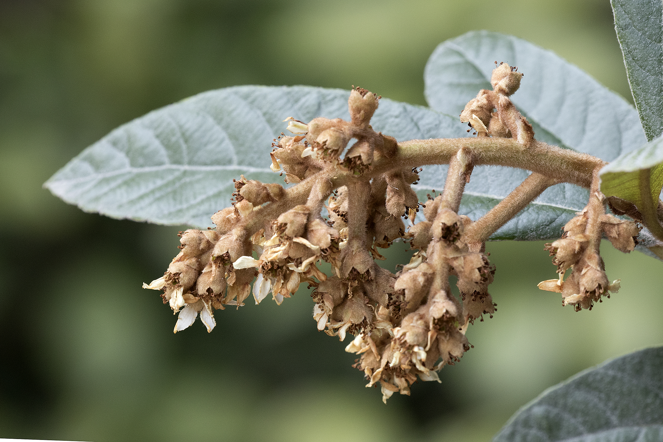 Flowers of loquat (Eriobotrya japonica). Seyhan - Adana, Turkey.